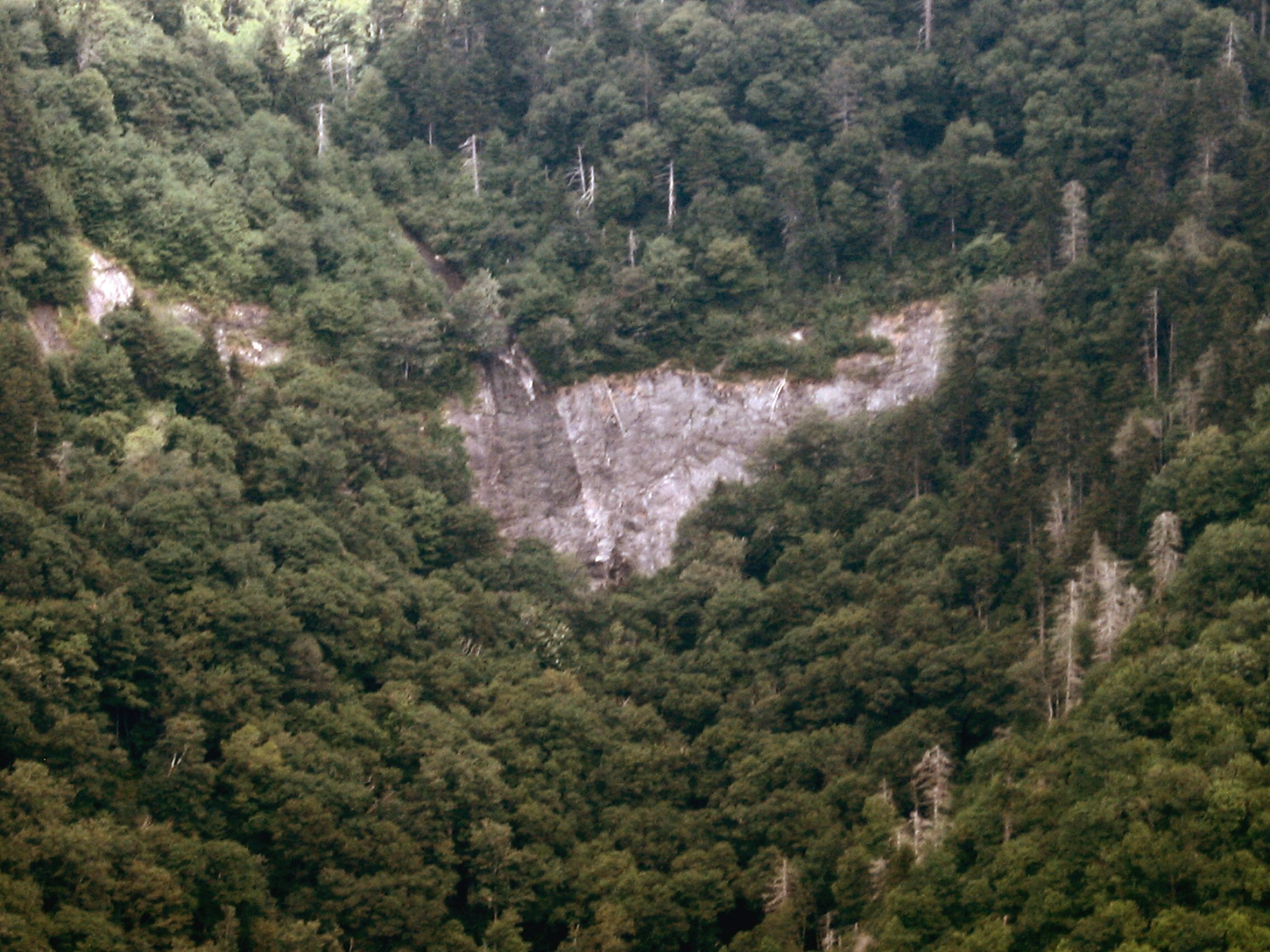 Glassmine Falls from the Blue Ridge Parkway overlook, taken by uploader, August 2006